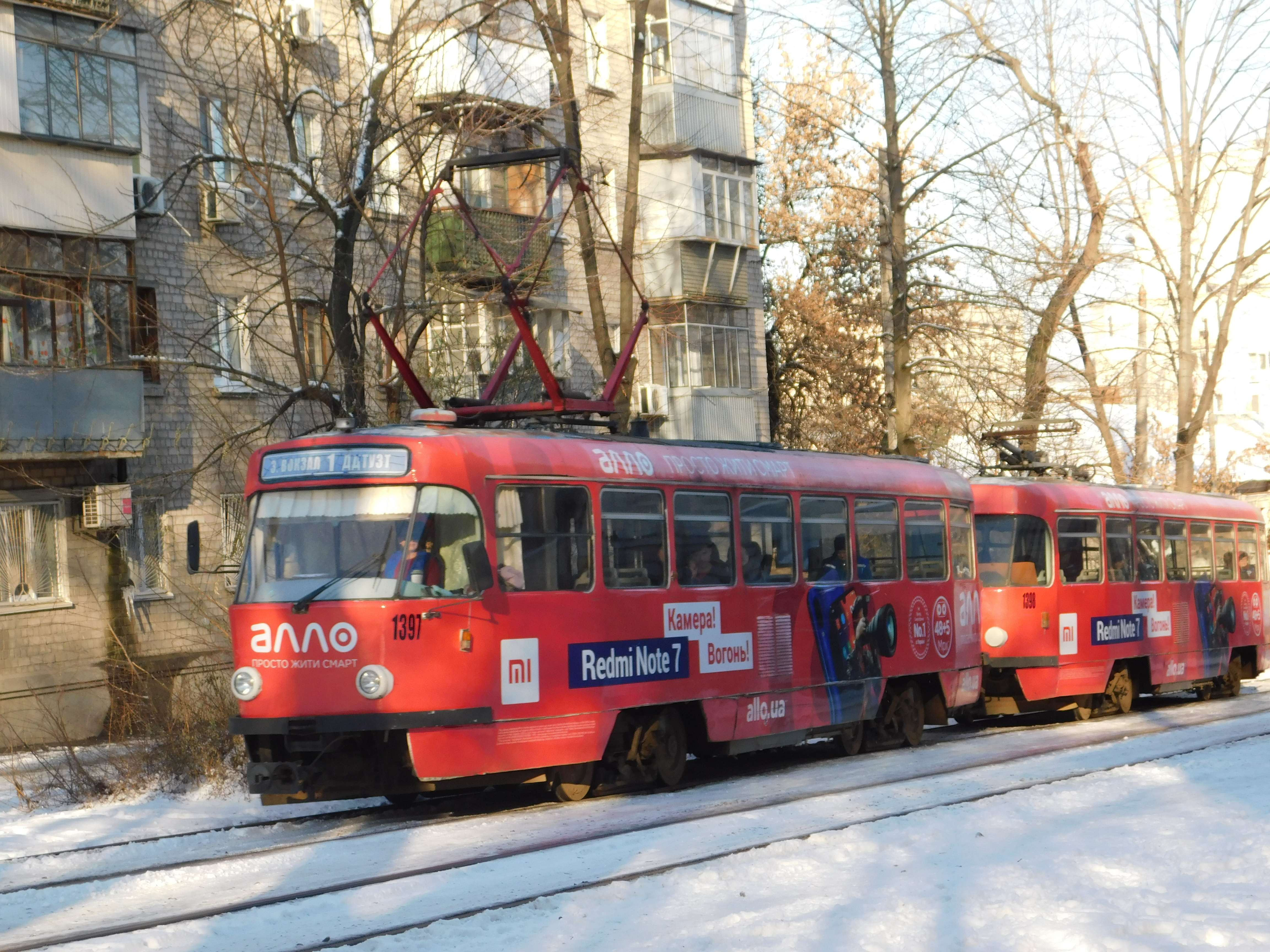 Front and right view of Tatra T3D numbered 1397, Dnipro